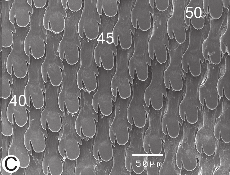 Photo of a radula of Amphidromus roseolabiatus from Ban Phavong, Khammouan, Laos (CUMZ 7012). Outermost marginal teeth. Scale bar is 50 μm.